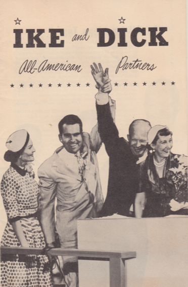 Campaign brochure for the Eisenhower/Nixon 1952 campaign.